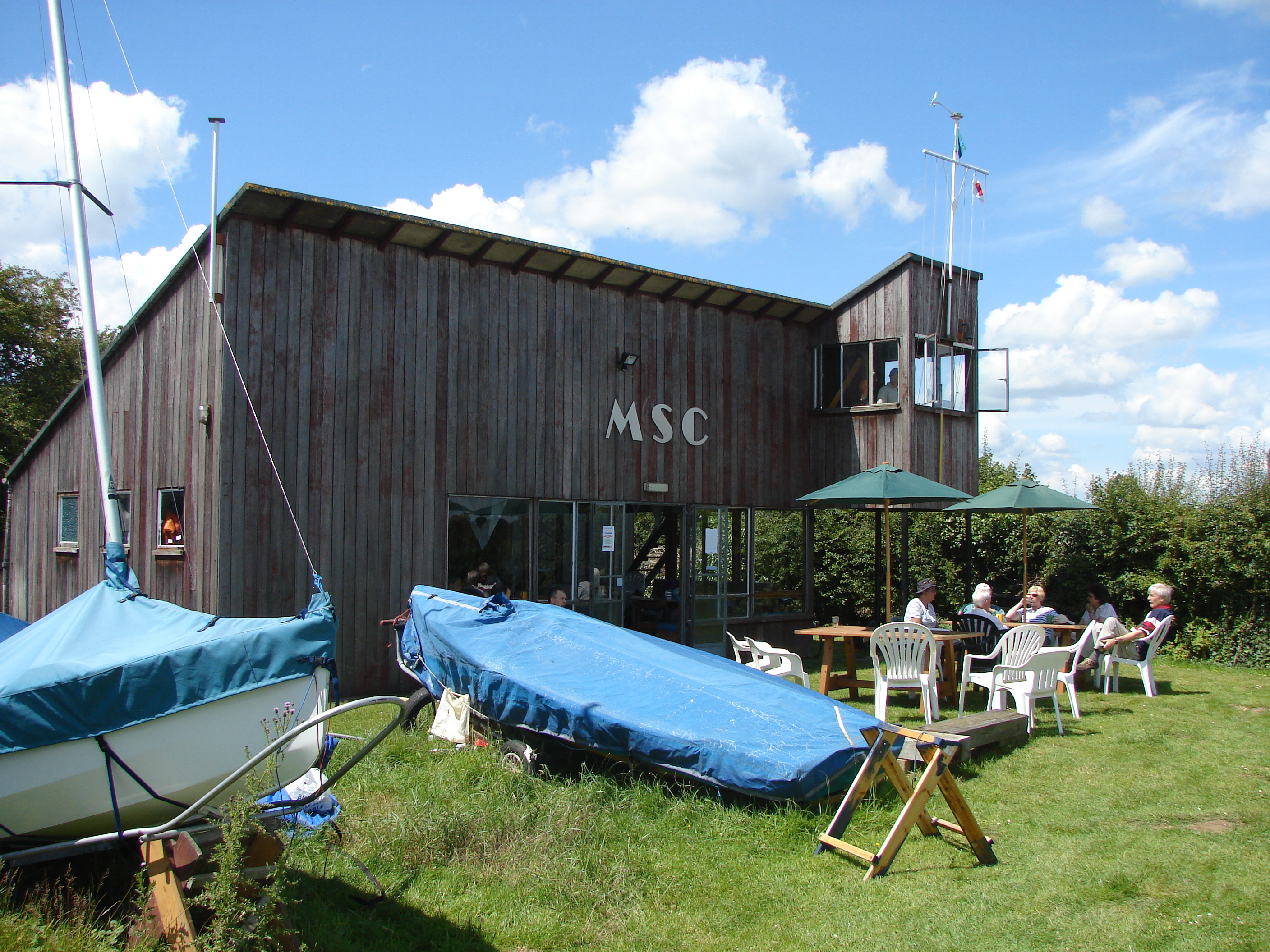 Photograph of Medley Sailing Club taken by me during July 2007